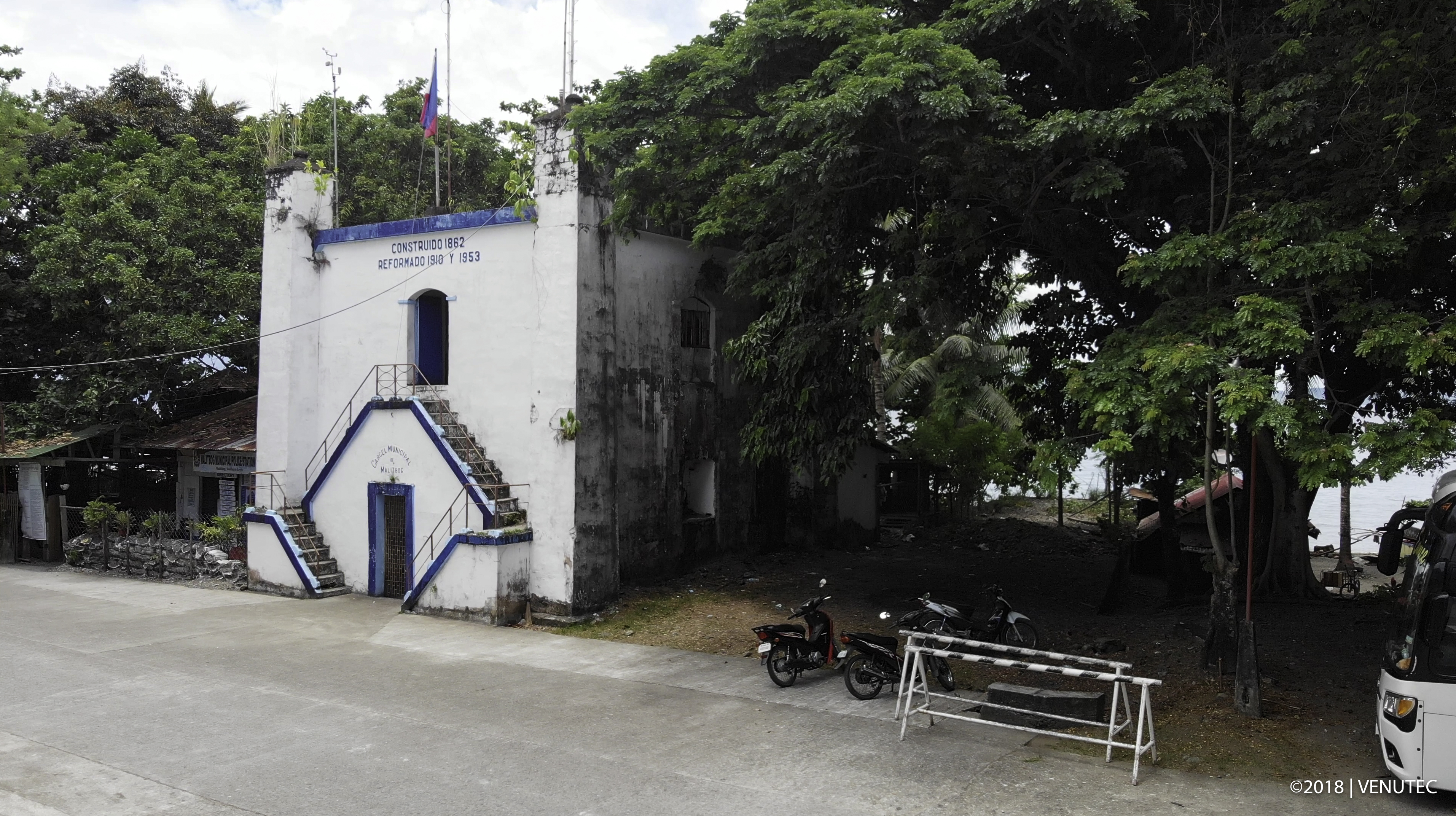 Built in 1862, this watch tower has been used by the Japanese military, and now a jail at the present